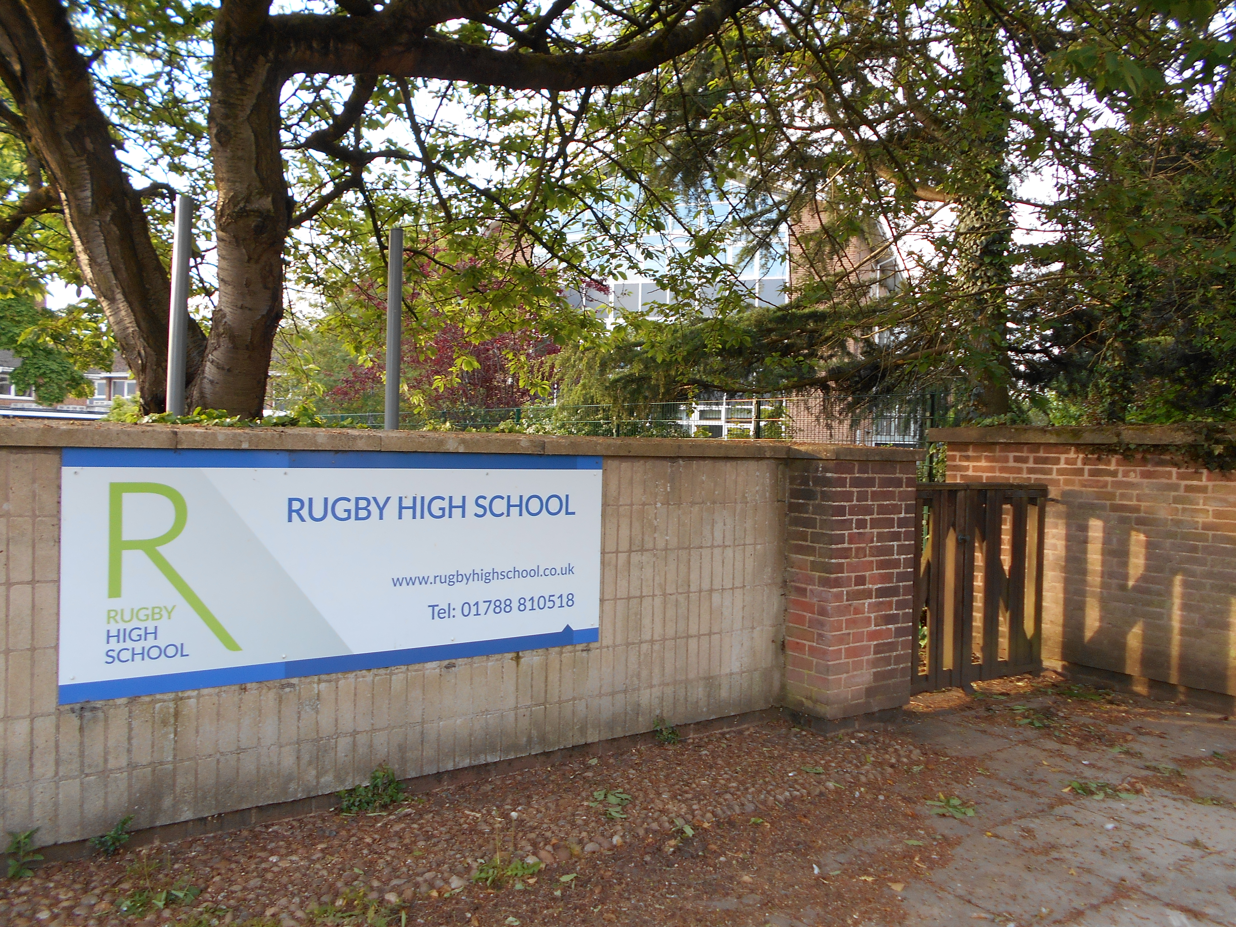 An entrance and sign of Rugby High School